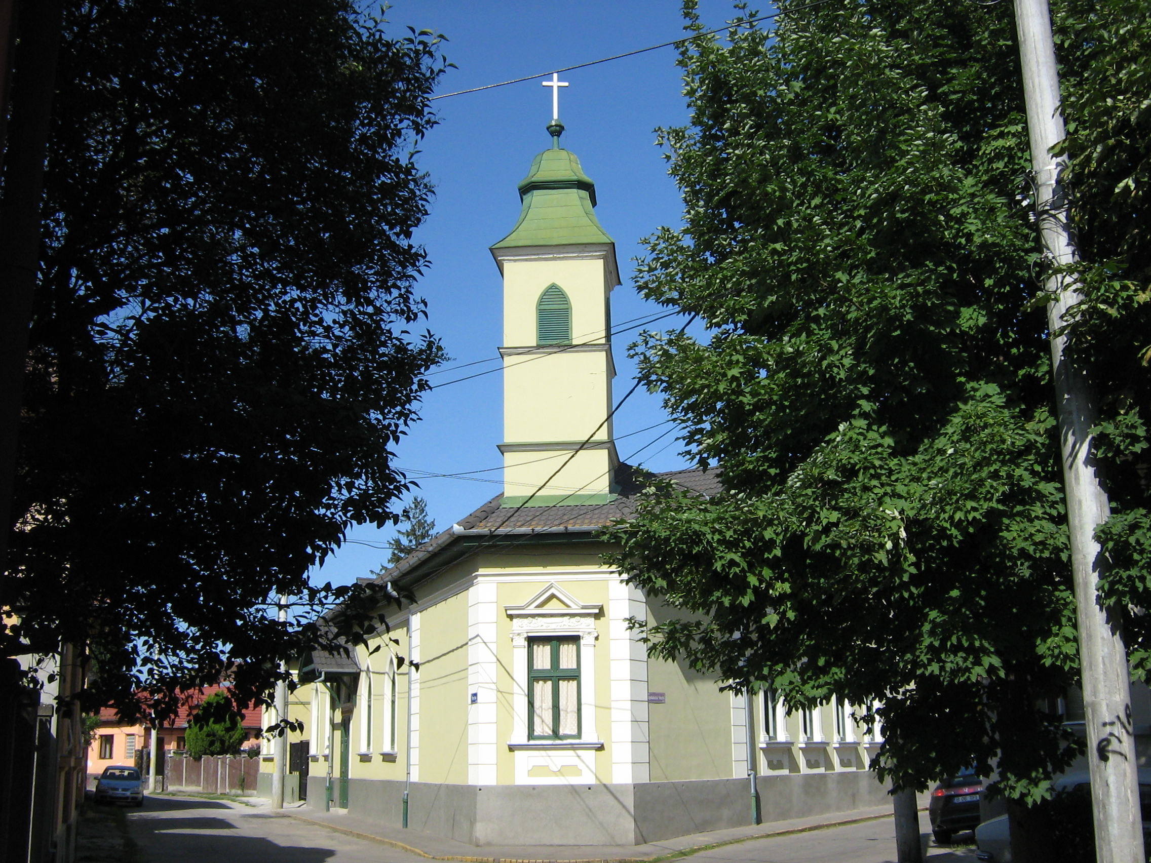 Evangelichal church in Targu Mures